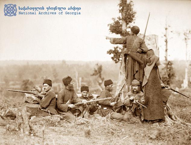 D. Yermakov. "Ambushed soldiers at Tsikhisdziri", Russo-Turkish war of 1877-1878